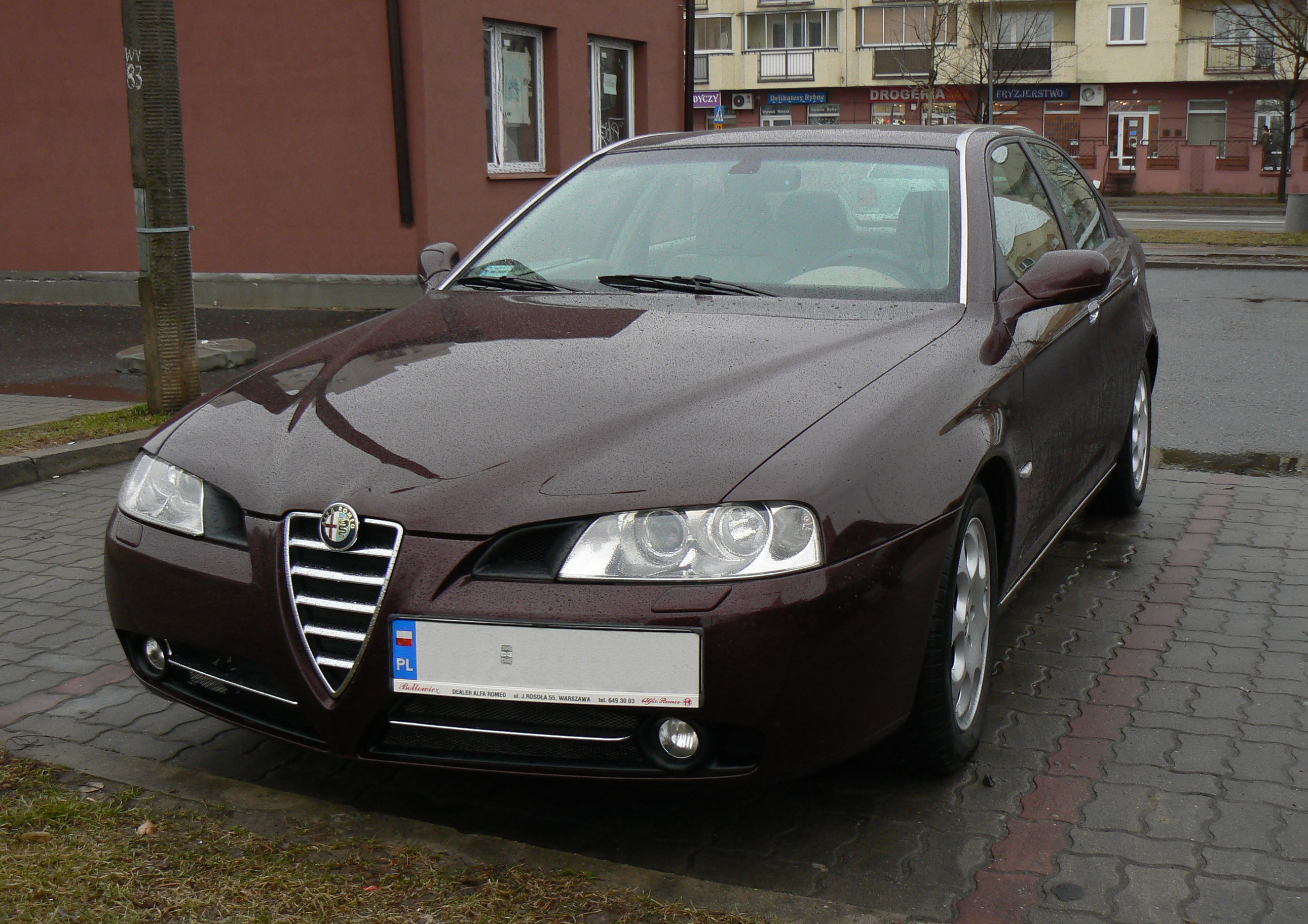 Alfa Romeo 166 photographed in Warsaw, Poland. Front.